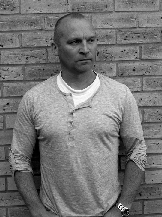 Ben Shockley taking a break during filming.